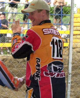 Joël Smets, 500cc World Champ at Southwick. All photos by Steve Bruhn. (excerpt from the original text)